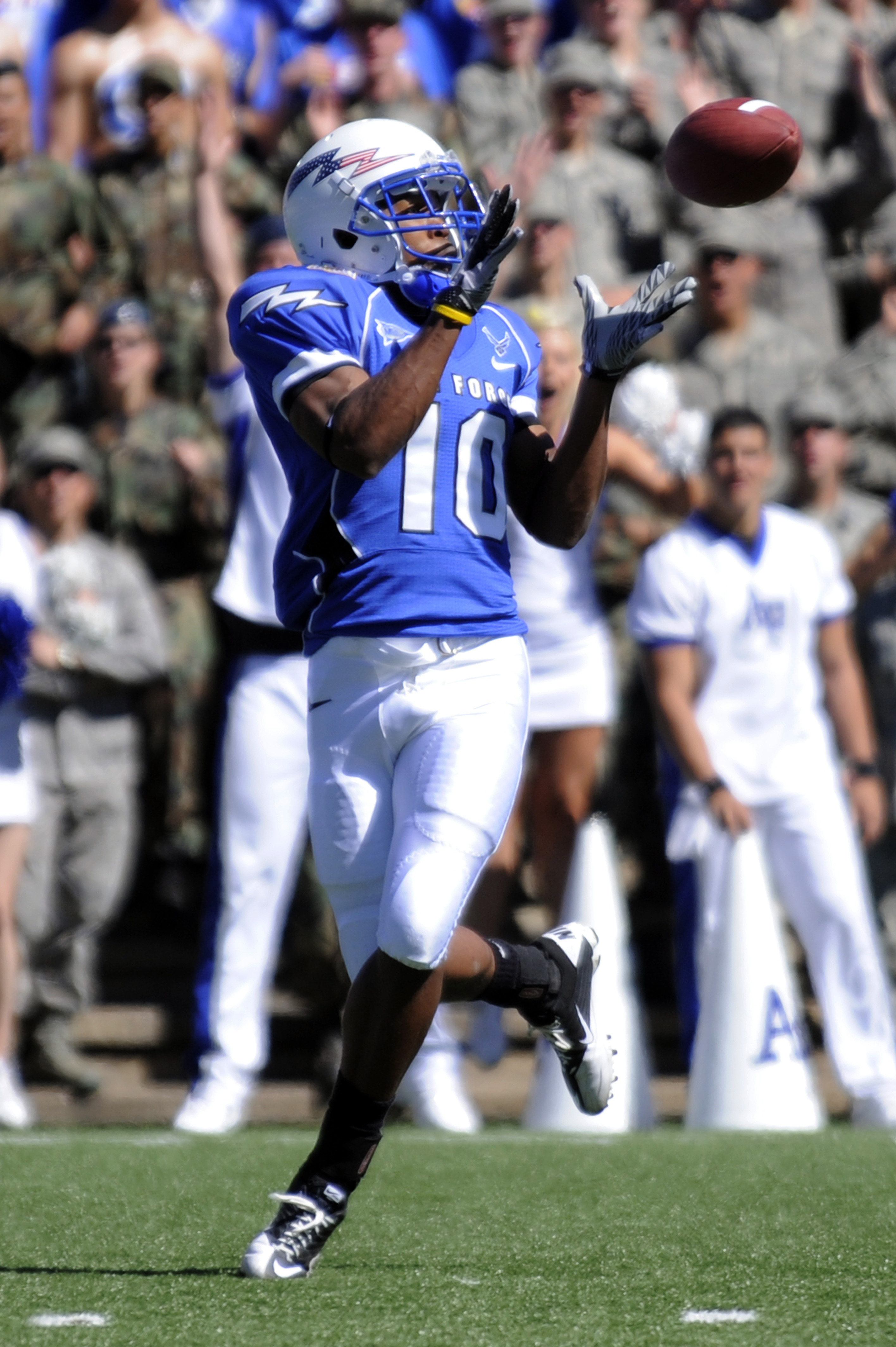 Falcons wide receiver Mikel Hunter pulls in a pass for a touchdown during the Air Force-BYU game at Falcon Stadium. The Falcons won 35-14.